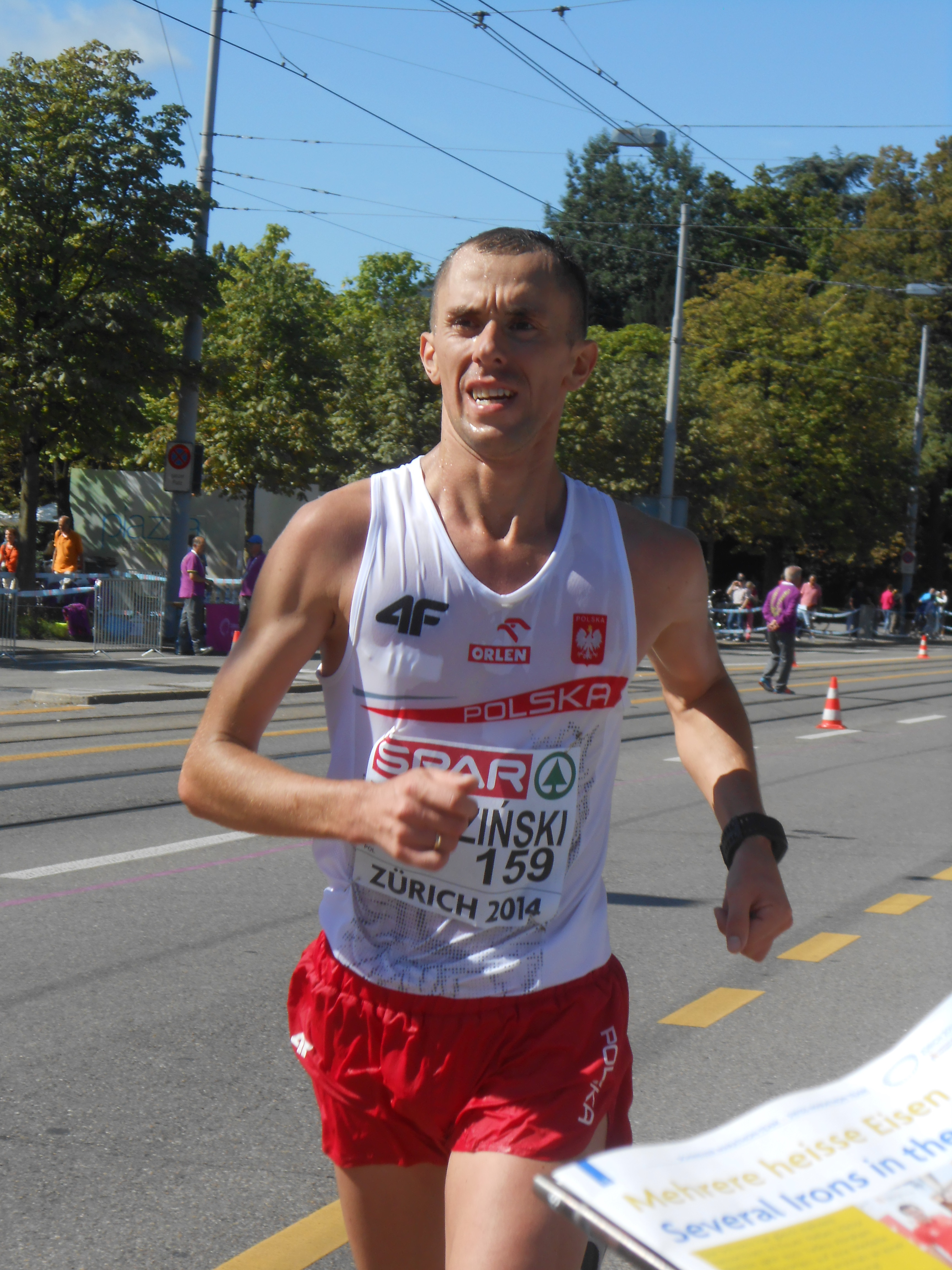 Blazej Brzezinski at the 2014 European Athletics Championships.